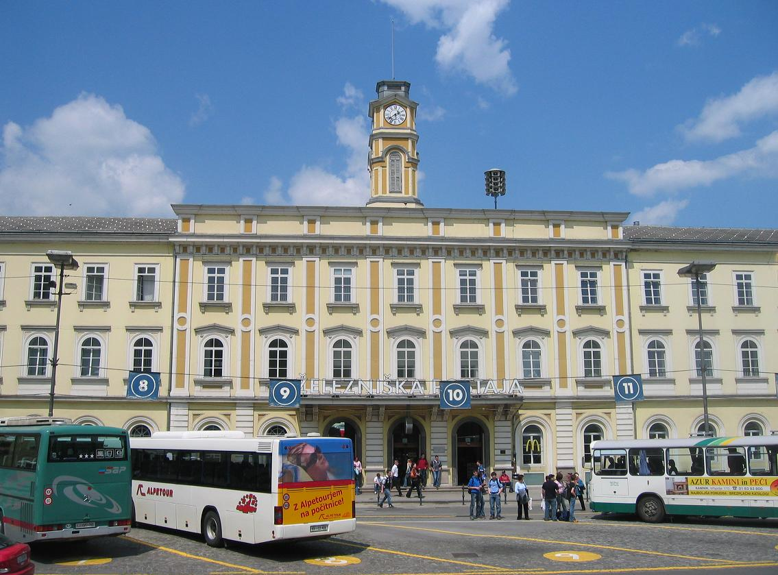 Railway Station, Ljubljana photo:Ziga 19:01, 13 May 2006 (UTC)